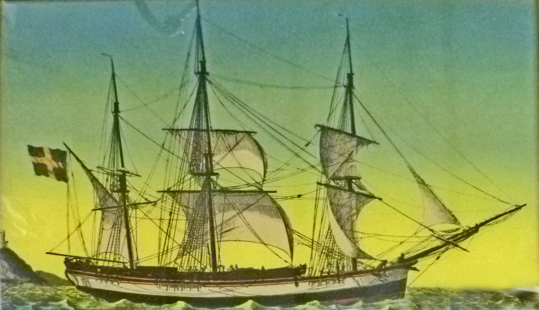 "Swedish merchant ship", old painting (29 x 36 cm) by anonymous artist; private collection